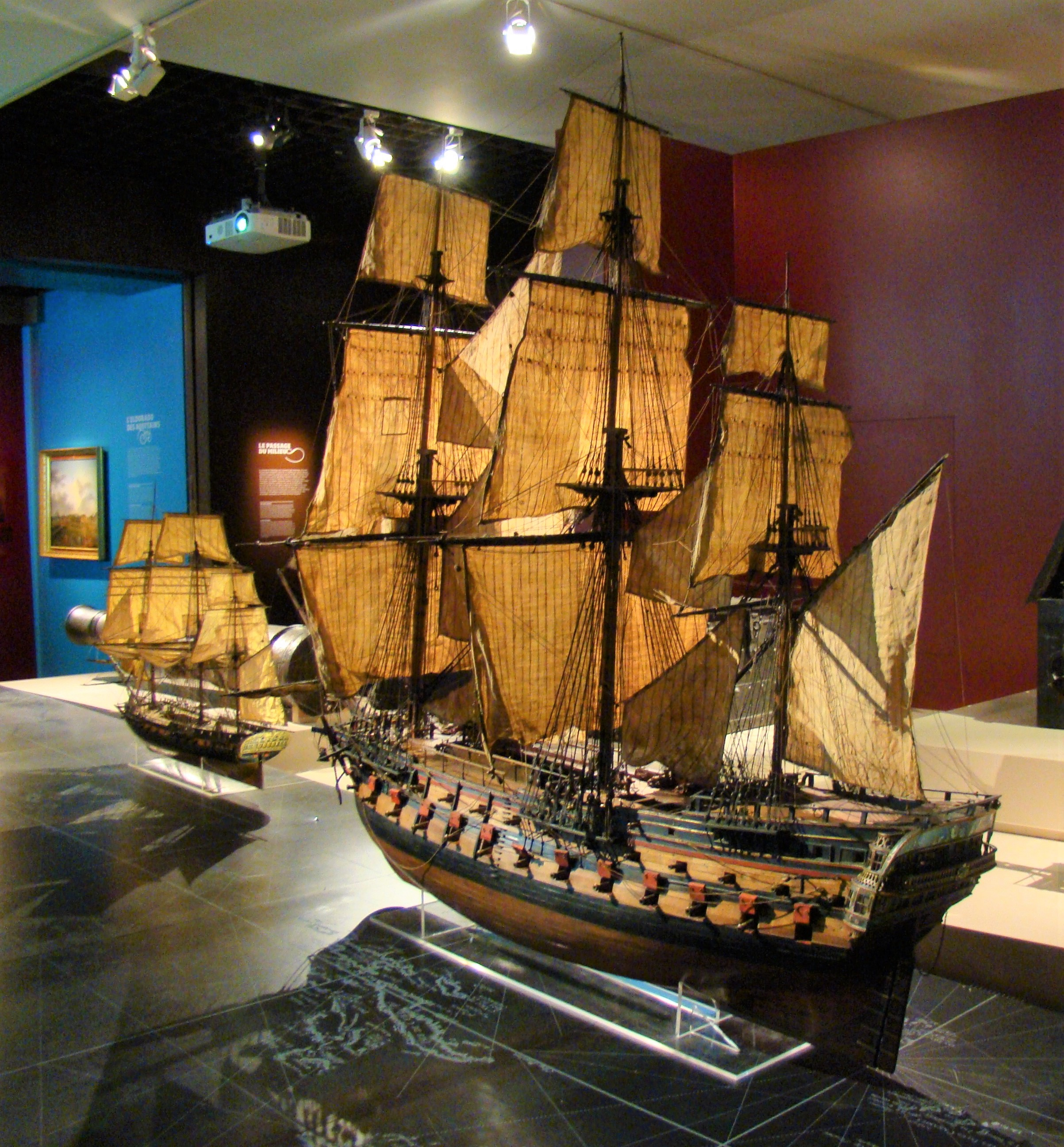 Spaces dedicated to "Bordeaux in the 18th century, trans-Atlantic trading and slavery" at the Museum of Aquitaine, Bordeaux.